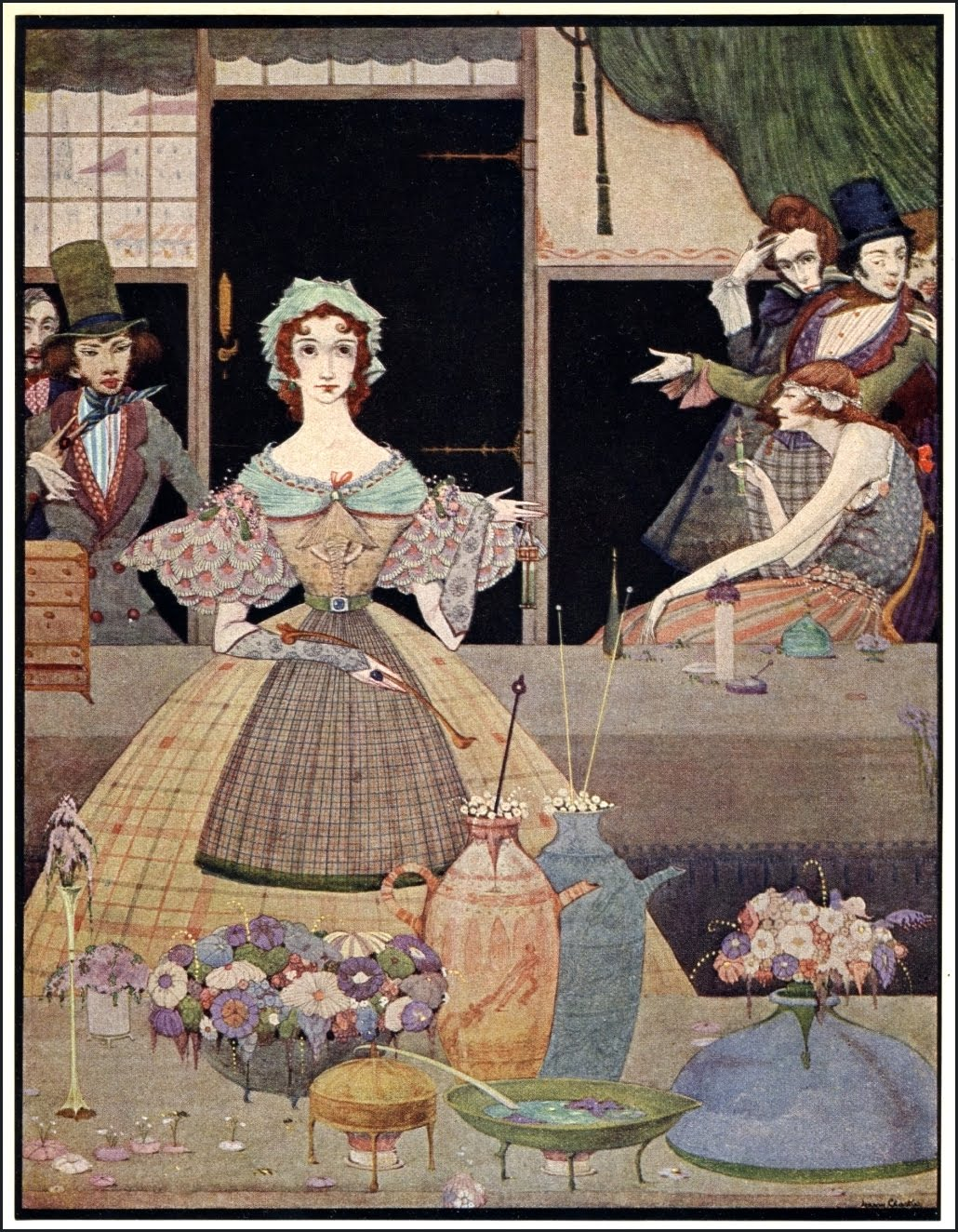 Harry Clarke The Mystery of Marie Rogêt. And now slowly opened the eyes of the figure which stood before me. (Illustration for Tales of Mystery and Imagination by Edgar Allan Poe.)